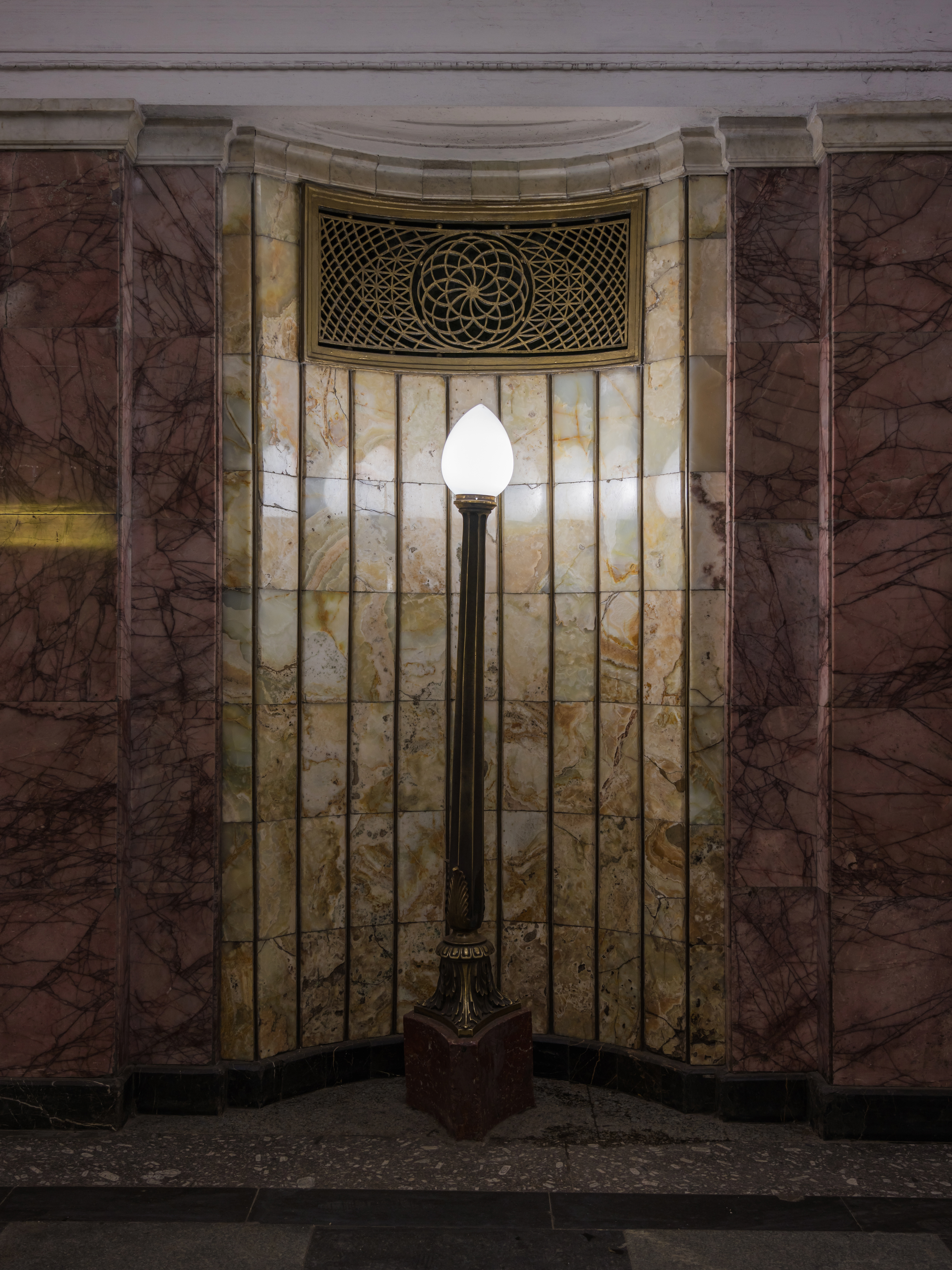 Belorusskaya (Green Line) metro station in Moscow